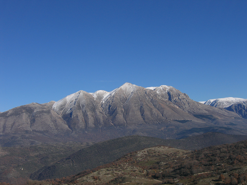 Monte Velino in foreground and Monte Sirente to the right side